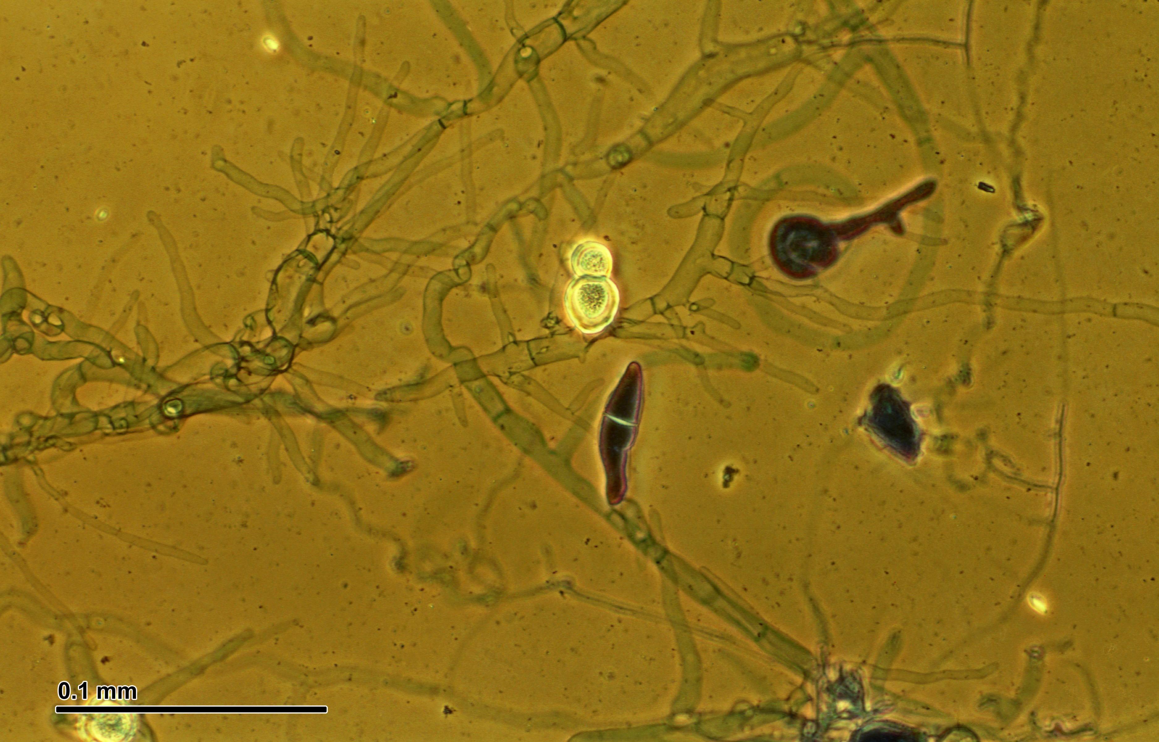 Basidiobolus (Basidiobolus). Optical microscopy technique: Positive phase contrast. Magnification: 600x (for picture width 26 cm ~ A4 format).